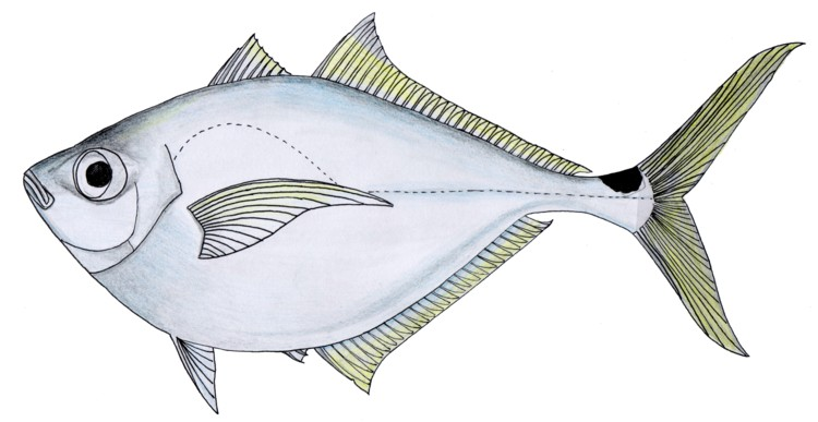 Hand drawn and coloured image of the Atlantic bumper, based on Carpenter et al at al 2002 and colour photos at fishbaseChloroscombrus chrysurus